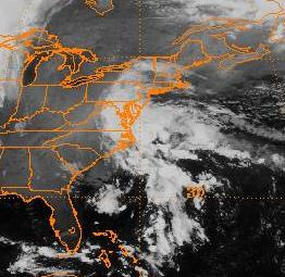 From GOES-12 Satellite. Remnants of Henri making landfall on North Carolina on September 12, 2003